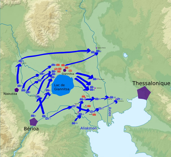 Map of the battle of Giannitsa during the First Balkan War, November 1st and 2nd, 1912.